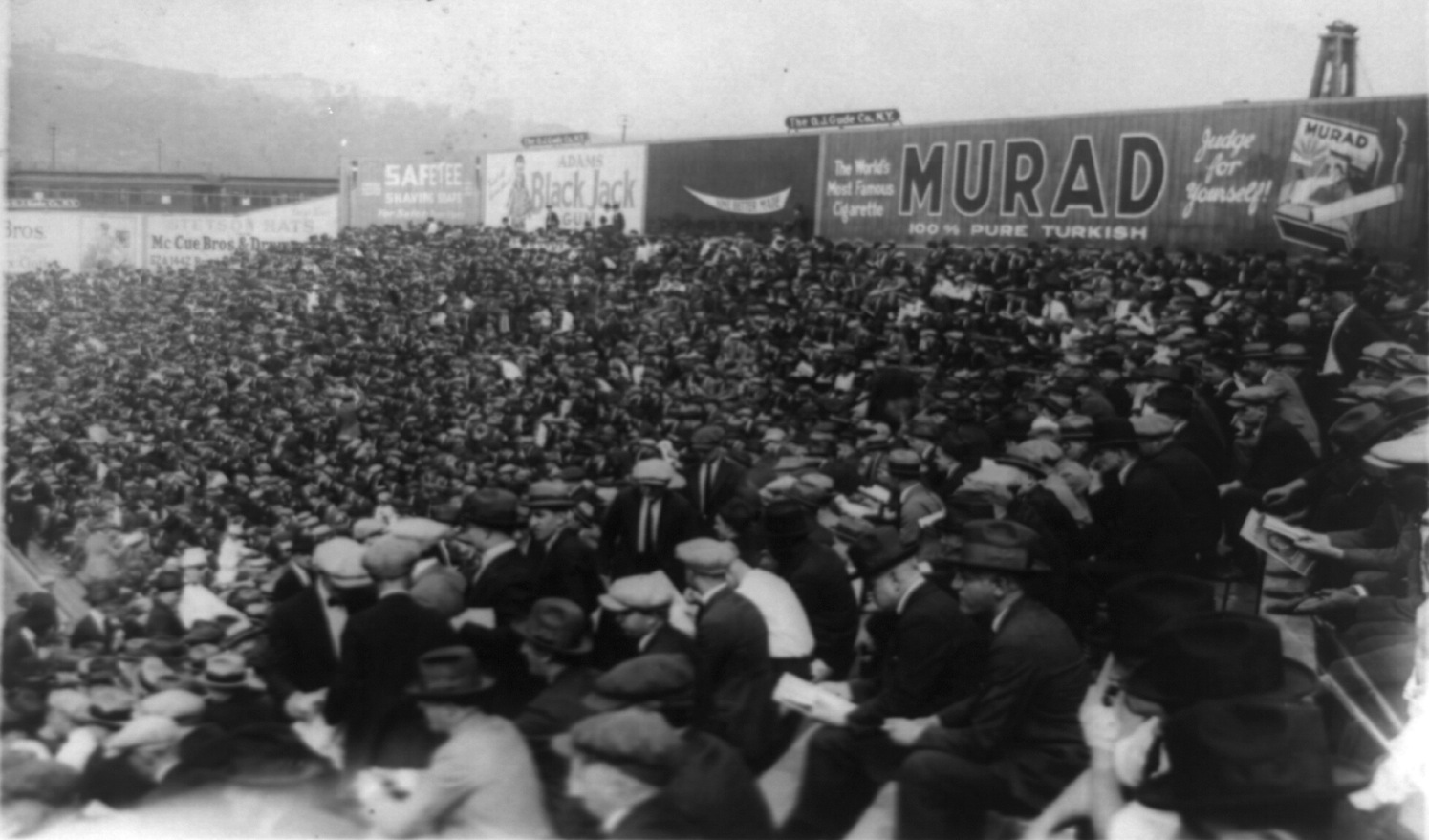 Believed to be in Public Domain From Library of Congress, Prints and Photographs Collections. More on copyright: What does "no known restrictions" mean? ______________________ For information from Creative Commons on proper licensing for images believed to already be in the public domain please-- click here. By using this image from this site, you are acknowledging that you have read all the information in this description and accept responsibility for any use by you or your representatives. You are accepting responsibility for conducting any additional due diligence that may be necessary to ensure your proper use of this image. ________________ Public Domain. Suggested credit: Library of Congress via pingnews. Additional information from source: TITLE: [World Series crowd for first game, Polo Grounds, N.Y.] CALL NUMBER: LOT 11147-3 [P&P] Check for an online group record (may link to related items) REPRODUCTION NUMBER: LC-USZ62-97855 (b&w film copy neg.) No known restrictions on publication. MEDIUM: 1 photographic print. CREATED/PUBLISHED: [1922 Oct. 4] NOTES: George Grantham Bain Collection. SUBJECTS: World Series (Baseball)--1920-1930. Sports spectators--New York (State)--New York--1920-1930. FORMAT: Photographic prints 1920-1930. DIGITAL ID: (b&w film copy neg.) cph 3b43945 VIDEO FRAME ID: LCPP003B-43945 CARD #: 89714123